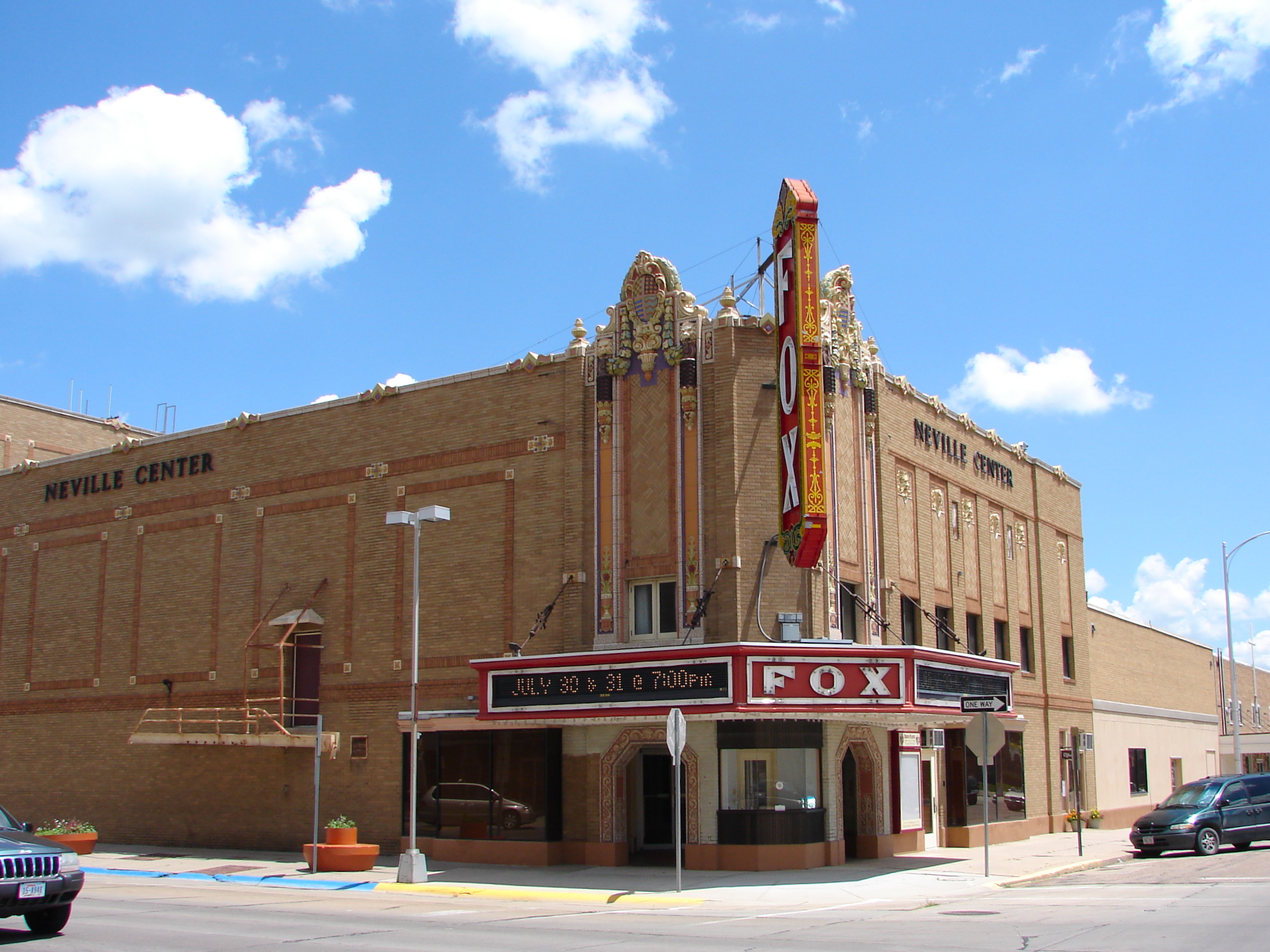 Fox Theatre on the NRHP since May 9, 1985. At 301 E. 5th, across the street from the Yancy Hotel (also on NRHP) in North Platte, Nebraska